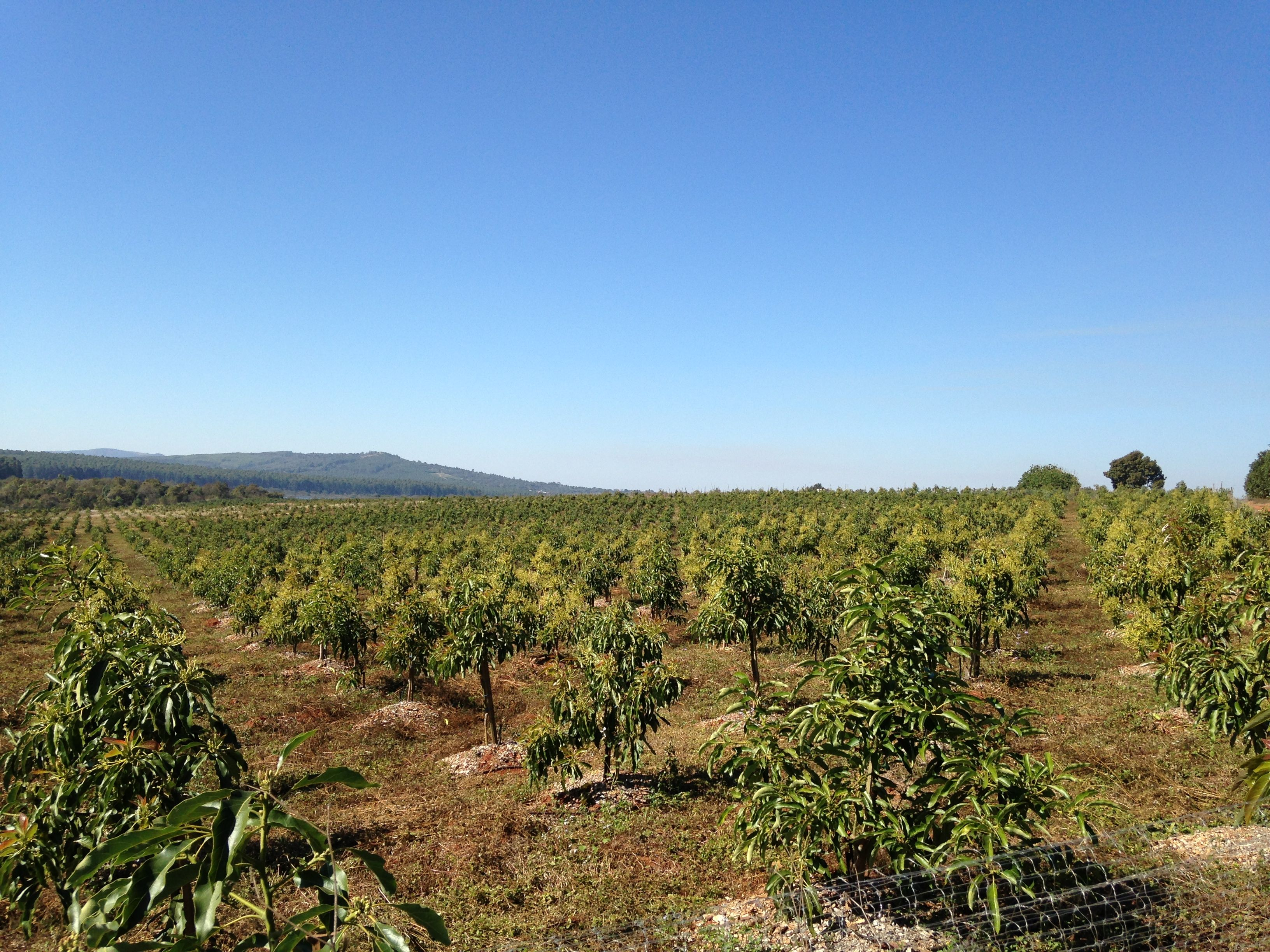 This is a photo of a young high density planting of the avocado cultivar Maluma in South Africa. It is on a plant spacing of 2,5m x 2,5m.